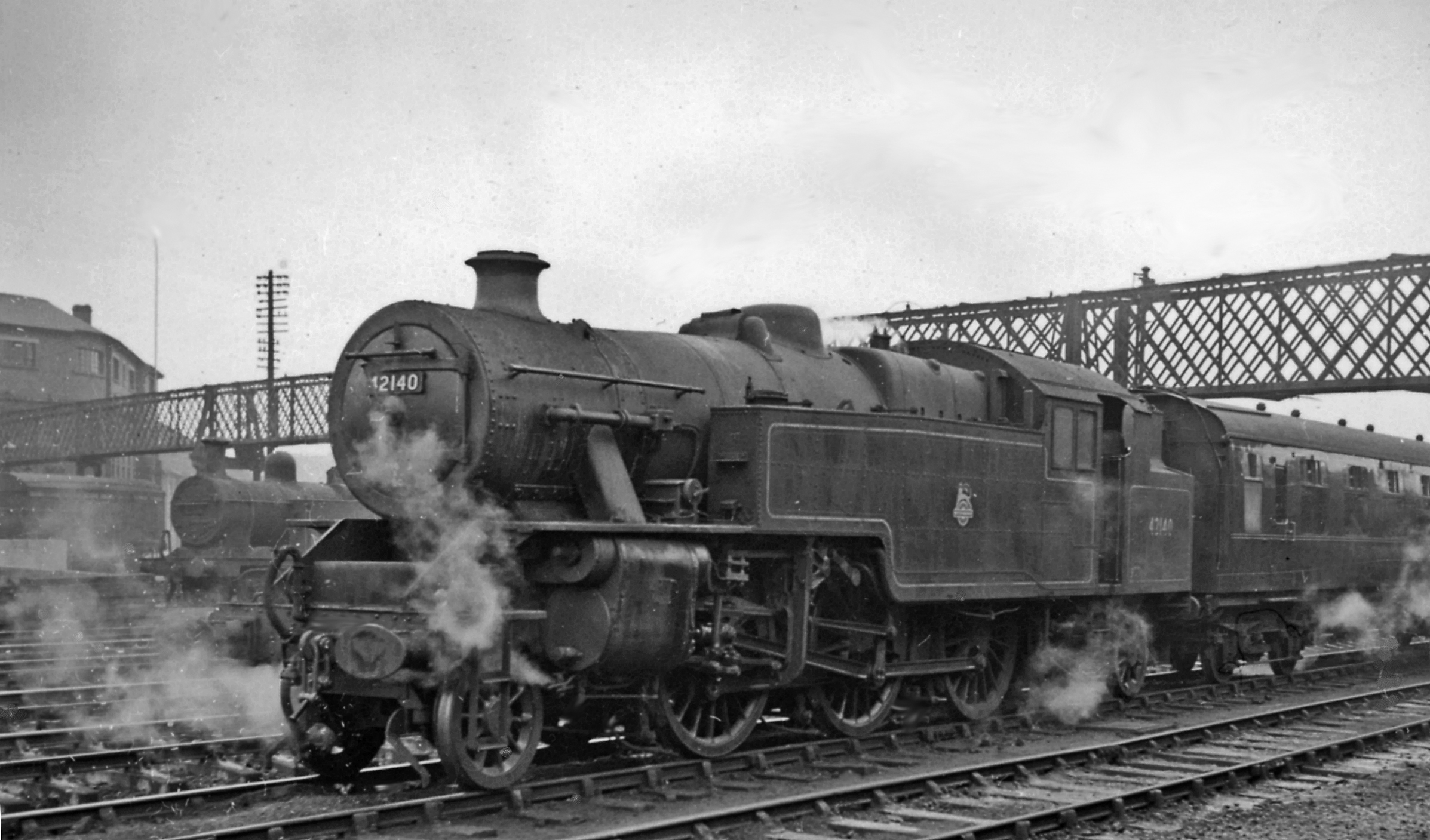 LMS Fairburn 2-6-4T at Derby. View SE, from the Station towards the Railway Works and Locomotive Depot, accessed by the footbridge. No. 42140 (built 4/50, spent all its life as a Nottingham engine, withdrawn 7/63).